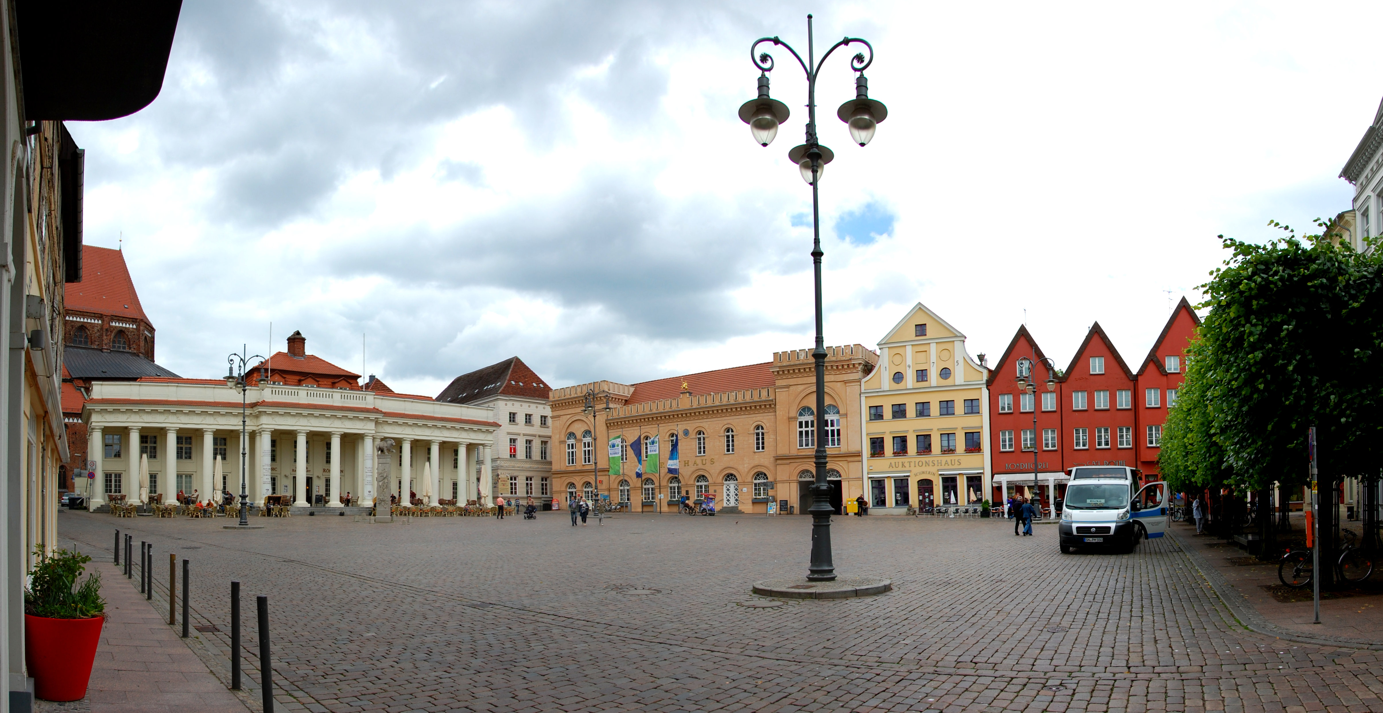 Town square of Schwerin